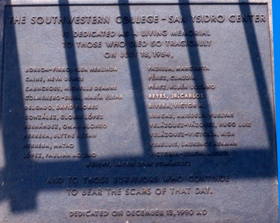 A memorial of the fatalities that occured on July 18, 1984